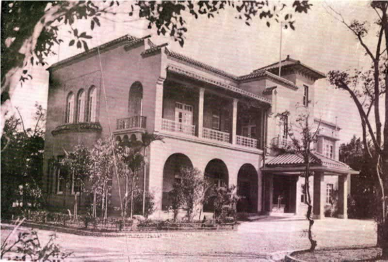 Old photo of the THK Taipei Broadcasting Station (Japanese: Taihoku Hôsôkyoku, kanji: 台北放送局), in Taipei, Taiwan.